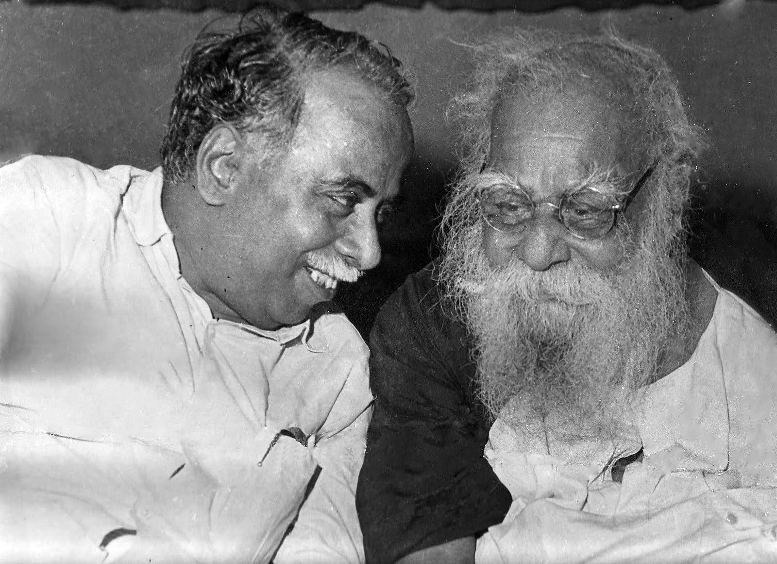 C. N. Annadurai and E. V. Ramasamy (Periyar)